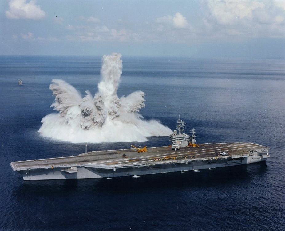 Shock blast detonated off the starboard side of USS Theodore Roosevelt (CVN-71), September 19, 1987. The test was conducted to demonstrate the carrier's ability to withstand underwater shock waves. US Navy photo.